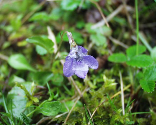 pyrenees Violet (Viola bubanii), a photography originating of the internet site The accord of the autor, H. Brisse, is here.